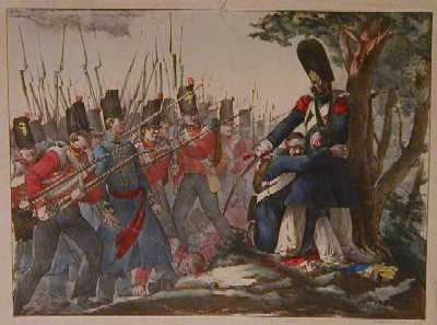 "Le Grenadier de Waterloo", 2nd printing. 340 x 460 [402 x 480 mm].